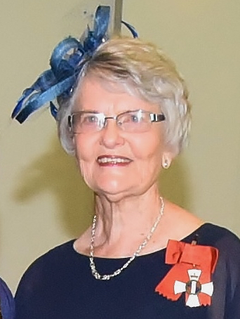 Emeritus Professor Dame Peggy Koopman-Boyden, after her investiture as DNZM, for services to seniors, on 17 August 2017